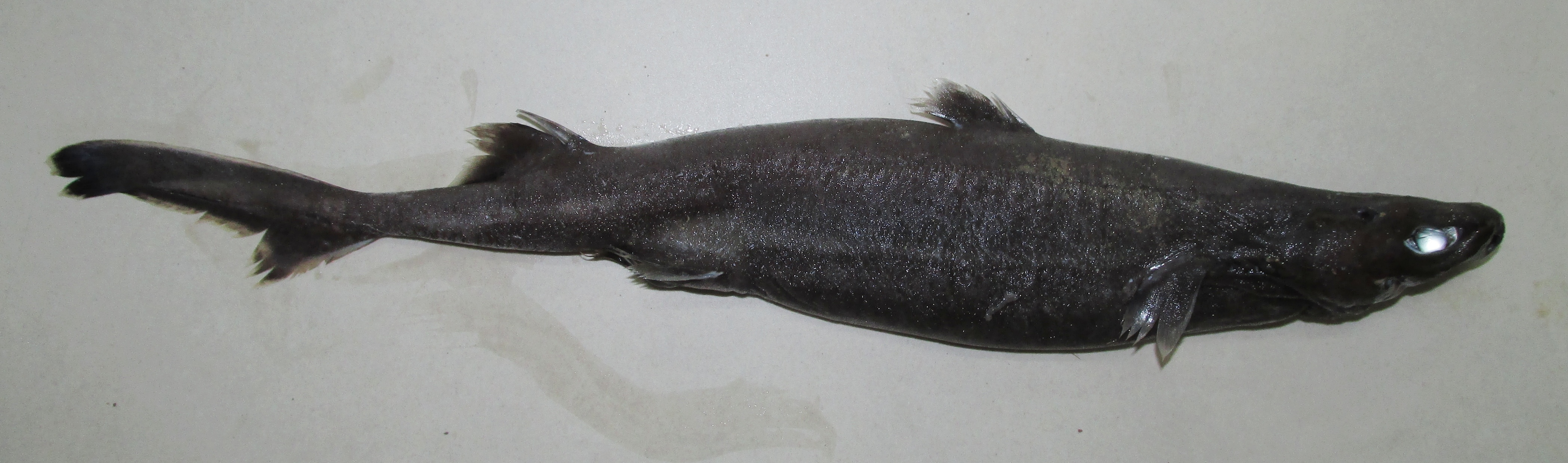 Velvet lanternshark (Etmopterus spinax) trawled at 500 m depth, Tuscan Archipelago